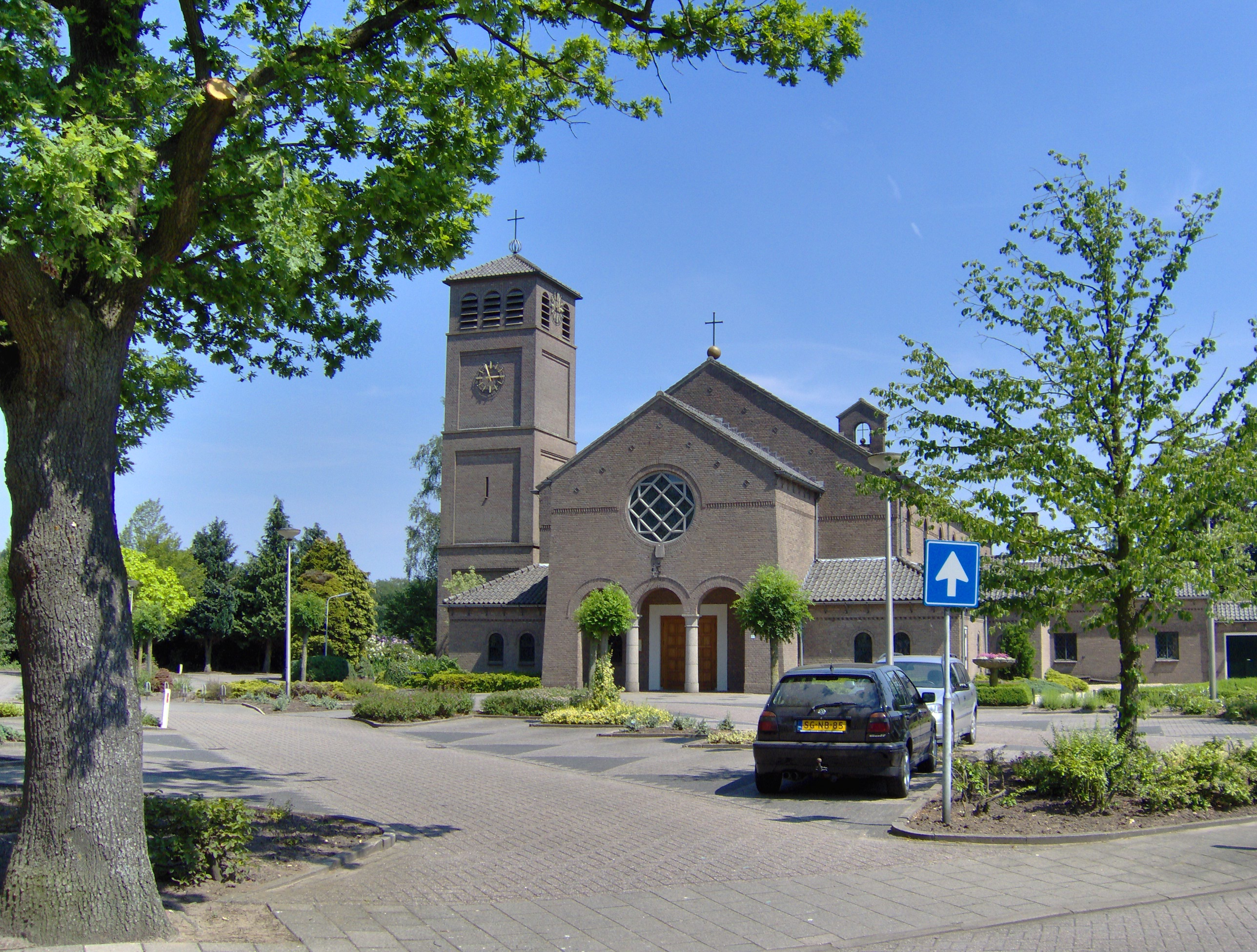 The Onze Lieve Vrouwekerk in Bentelo in the municipality of Hof van Twente, in the province of Overijssel in the Netherlands.